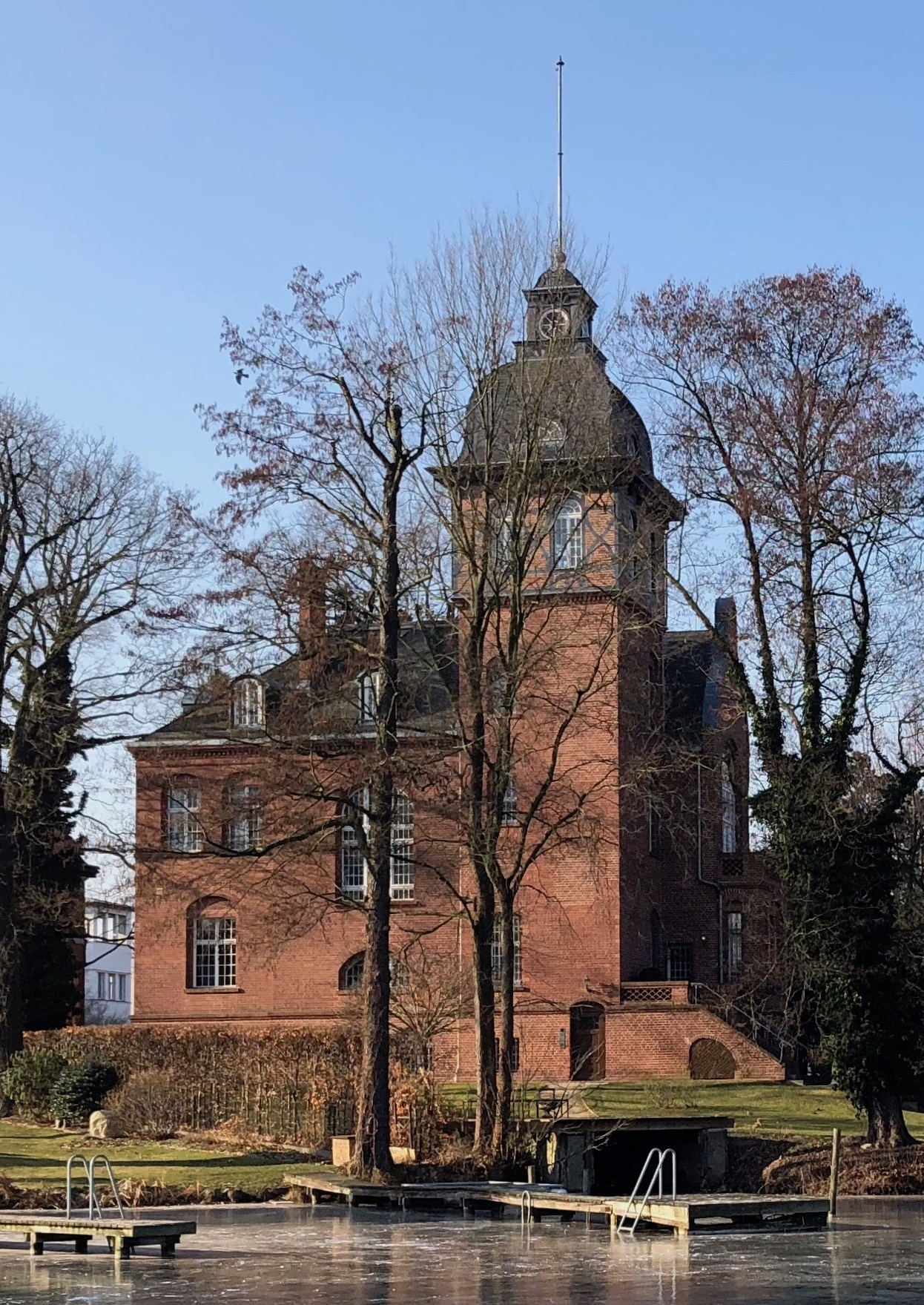 Villa Rumpf Potsdam